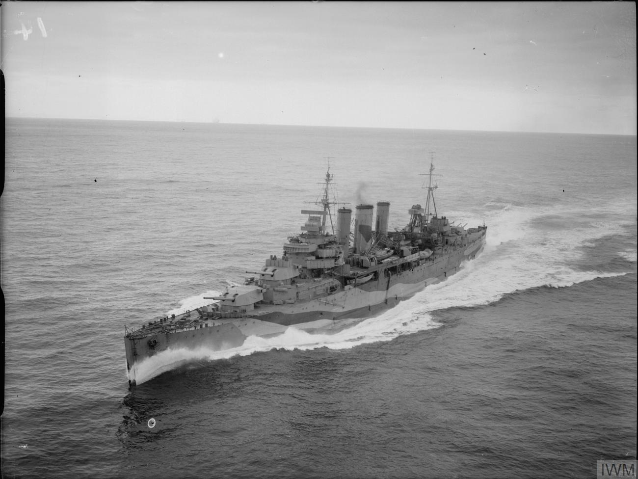 British heavy cruiser HMS KENT underway at Scapa Flow.